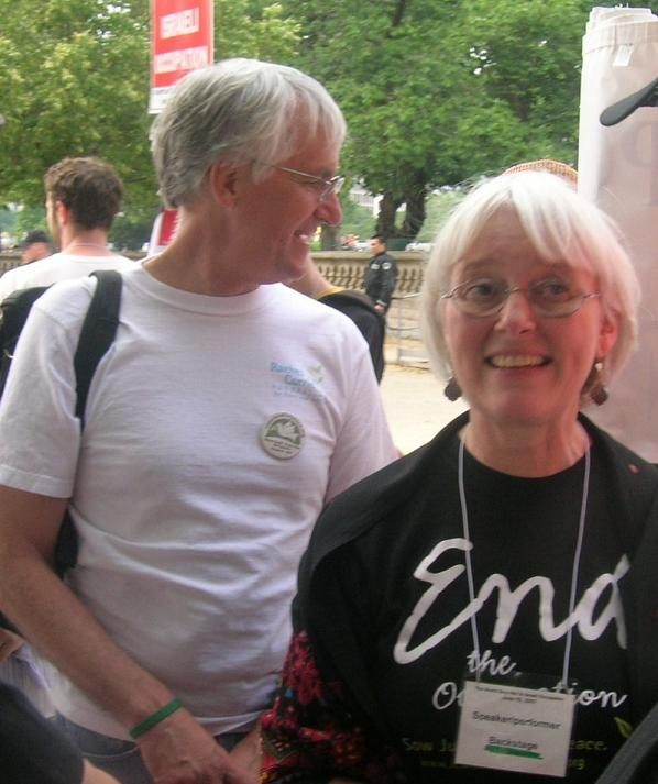 Cindy and Craig Corrie, parents of Rachel Corrie, at an "end the occupation" of Palestine rally at the U.S. Capitol, June 10, 2007.